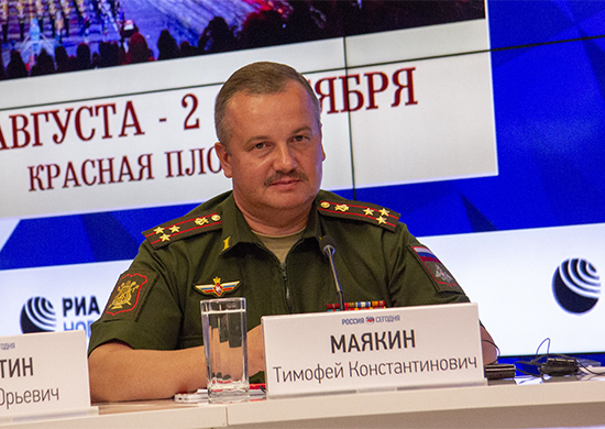 XI Международный военно-музыкального фестиваль «Спасская башня» будет проходить в Москве с 24 августа по 2 сентября